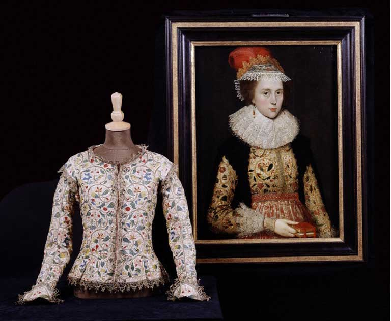 Jacket and portrait of Margaret Laton, about 1610 V&A Museum no. T.228-1994 Techniques - Linen, embroidered with coloured silks, silver and silver-gilt thread Place - England